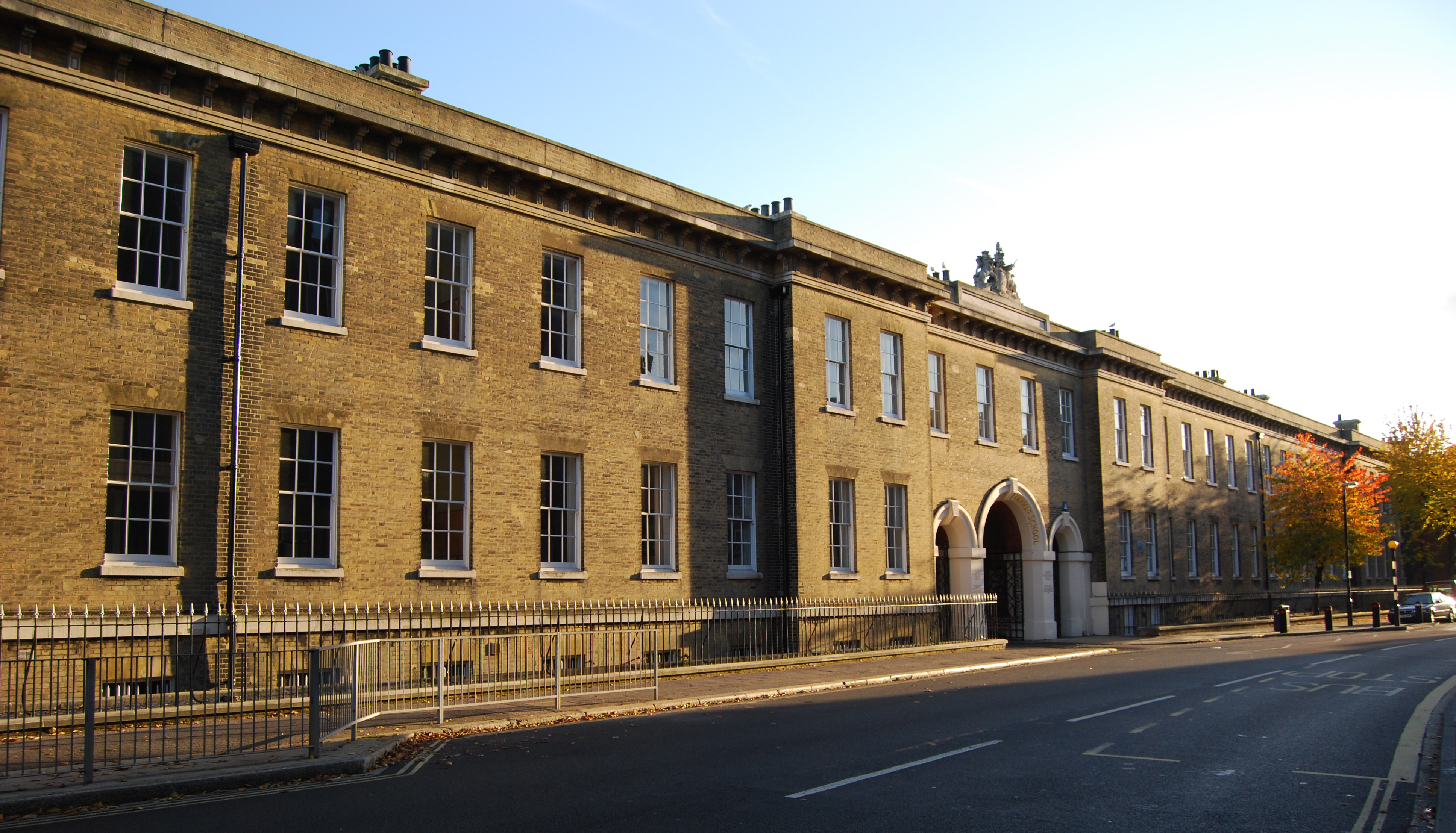 Portsmouth UK